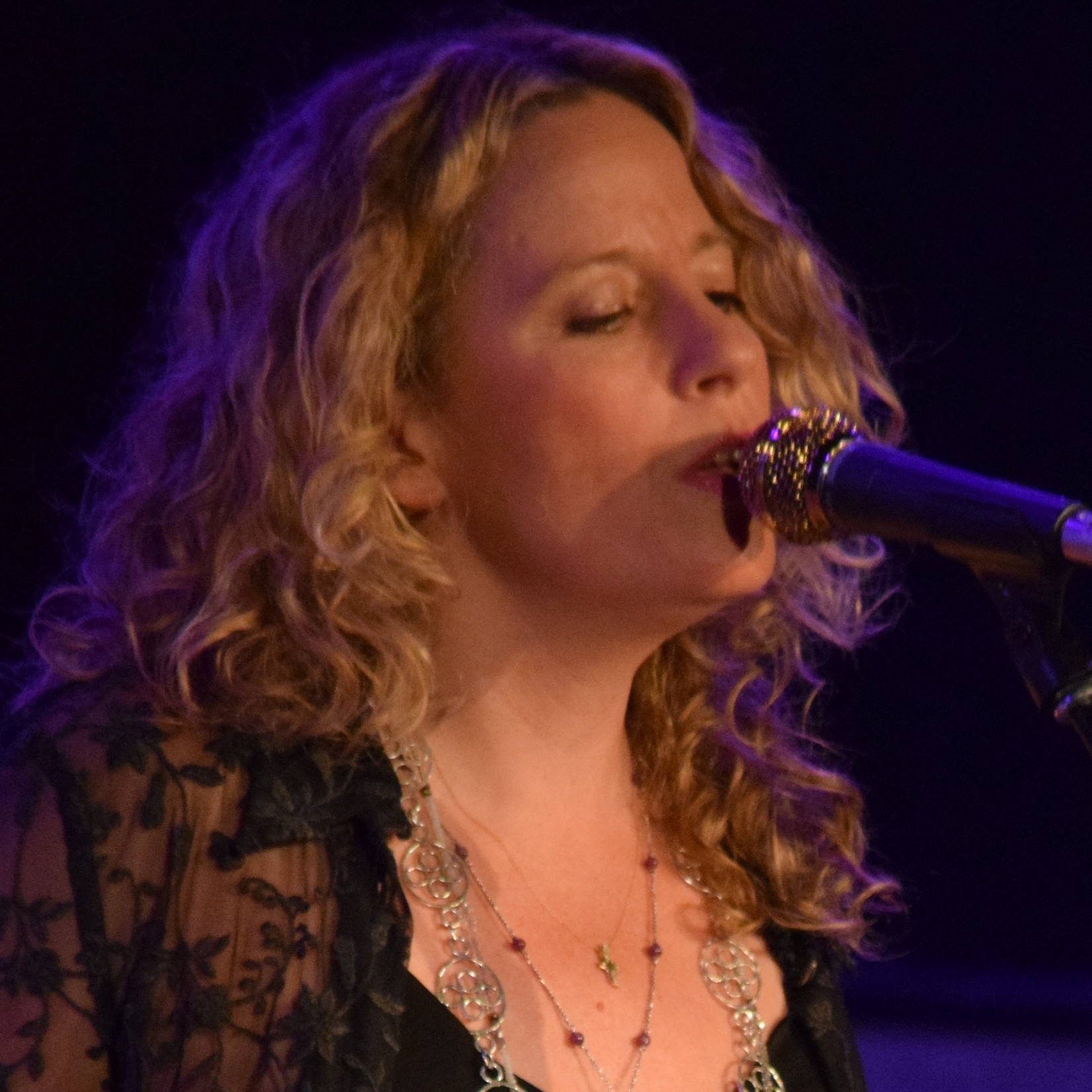 A photograph of musician Amy Helm, taken at New York's City Winery on April 9, 2015.